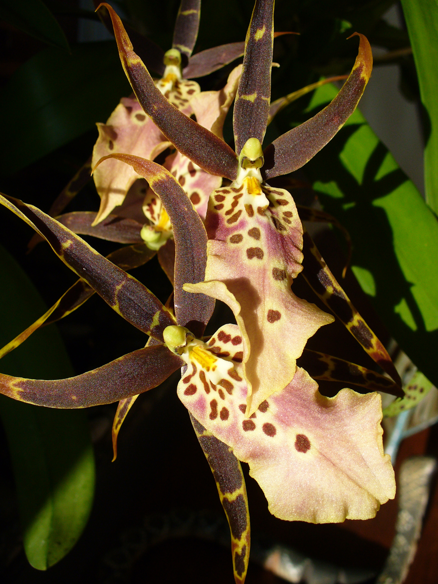 (Miltassia Olmec x Brassia Edvah Loo) South Miami, FL, USA